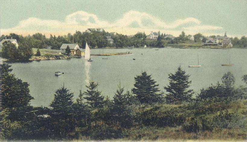 Christmas Cove, South Bristol, Maine